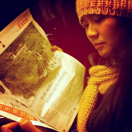 Woman reading newspaper